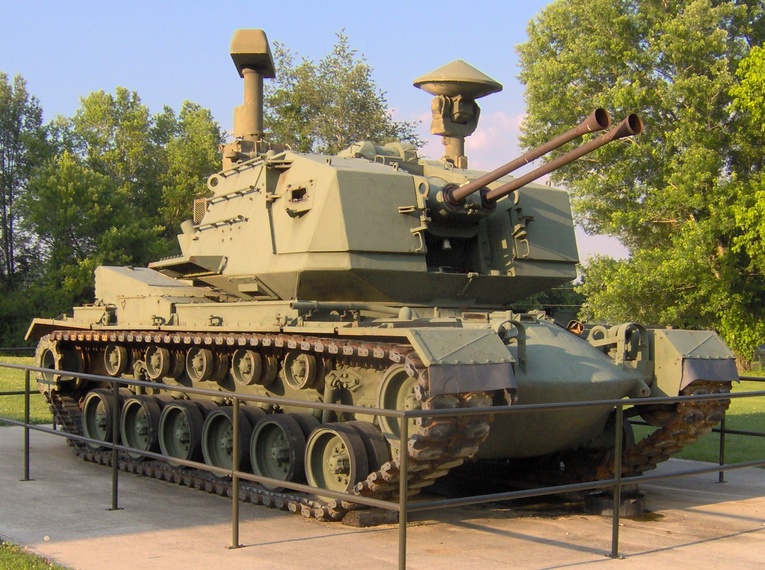 An M247 Sergeant York on display at Sgt. Alvin C. York State Historic Park in Pall Mall, in the U.S. state of Tennessee. Coordinates: 36.54212 -84.95946